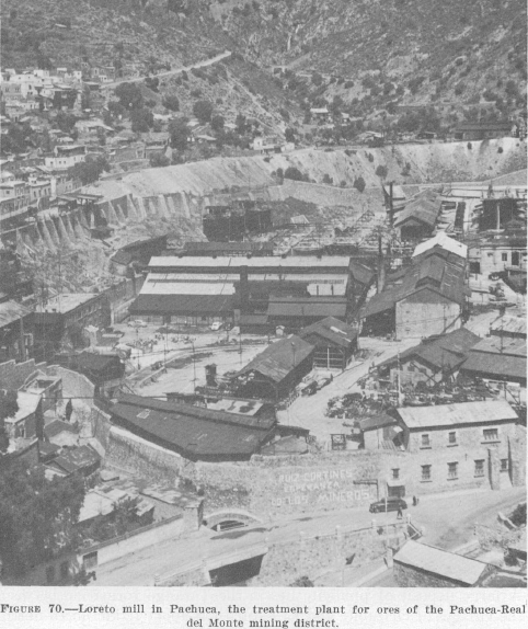 Loreto Mill